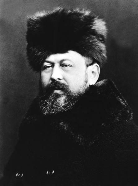 Baron Horace Günzburg, was a Russian philanthropist.